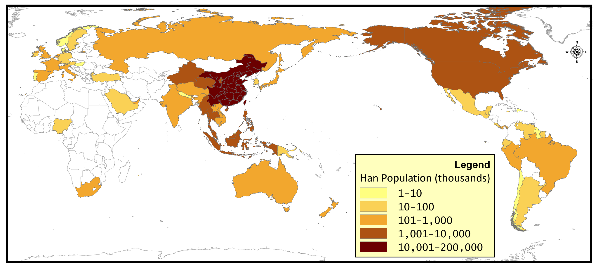 Han Population in the World: 2010